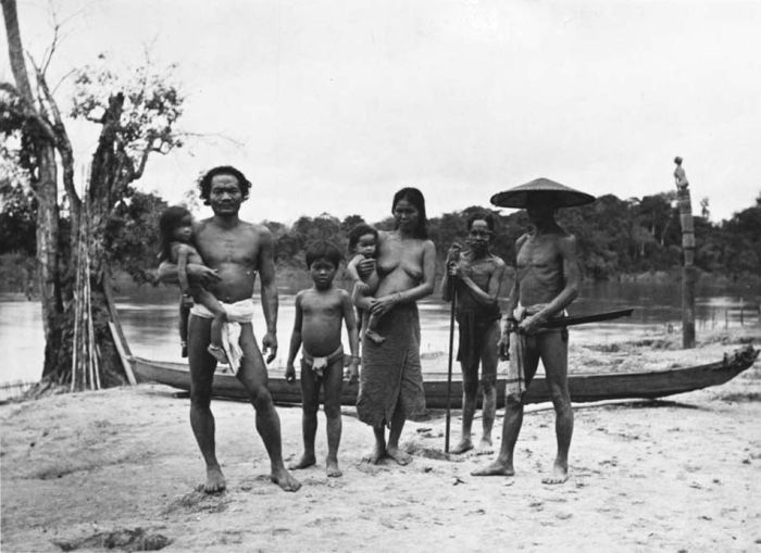 Portrait of a Punan Dayak group at the river, Borneo